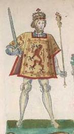 James III